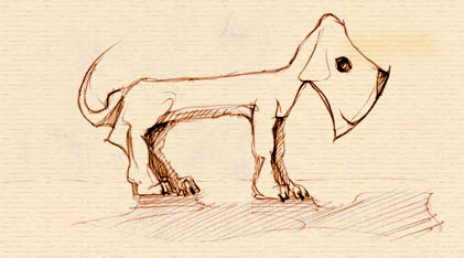 An illustration of an axehandle hound. Sorry, the "author not available" refers to my friend who wishes to remain anonymous. I hope that clears it up--!paradigm! 17:15, 27 July 2006 (UTC)!paradigm!